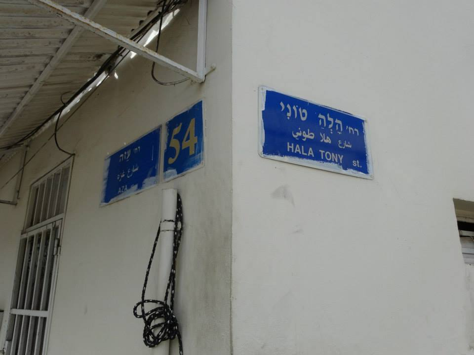 Jaffa, 54 Aza Street